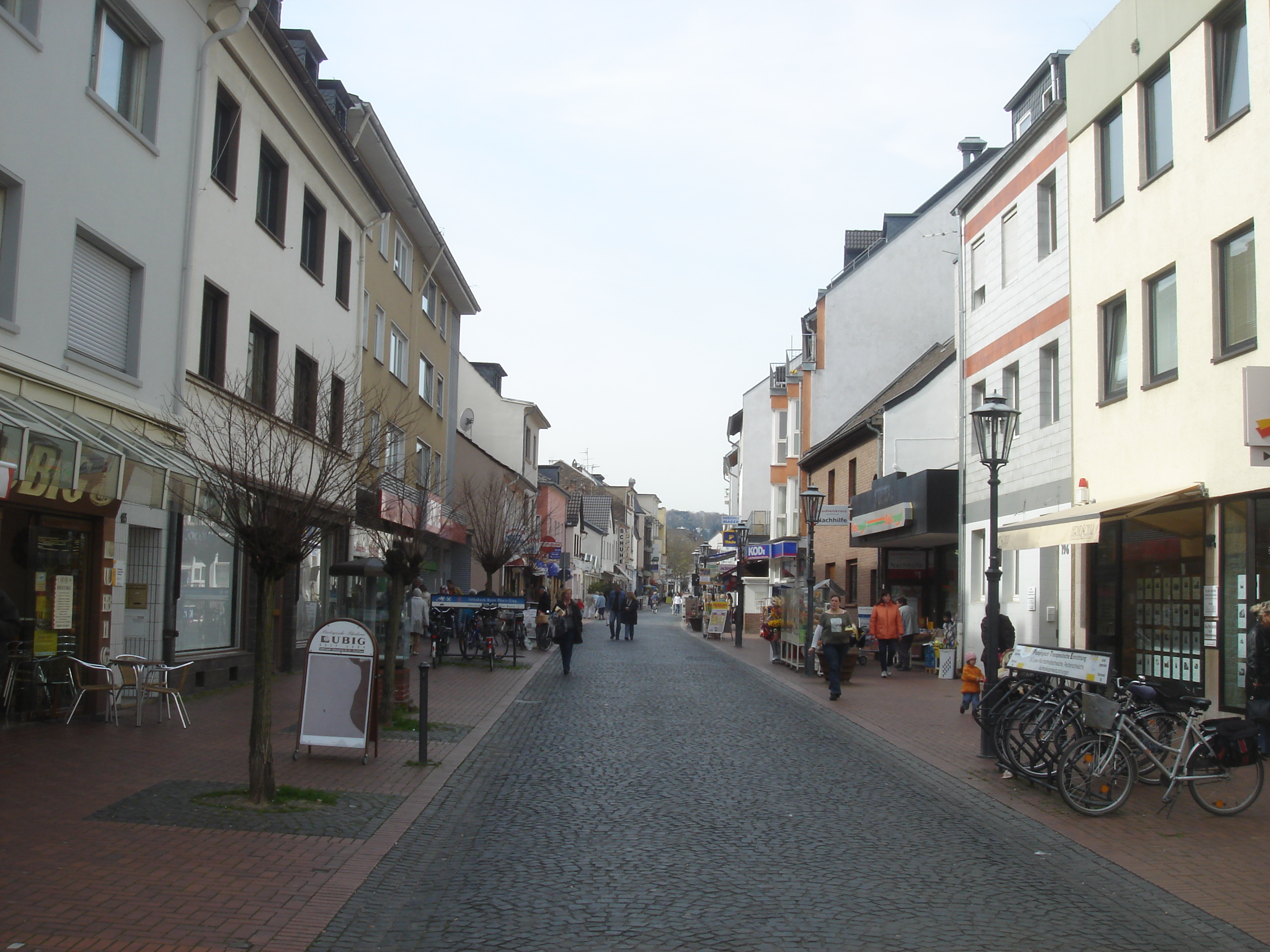 Pedestrianised zone of Bonn-Duisdorf.